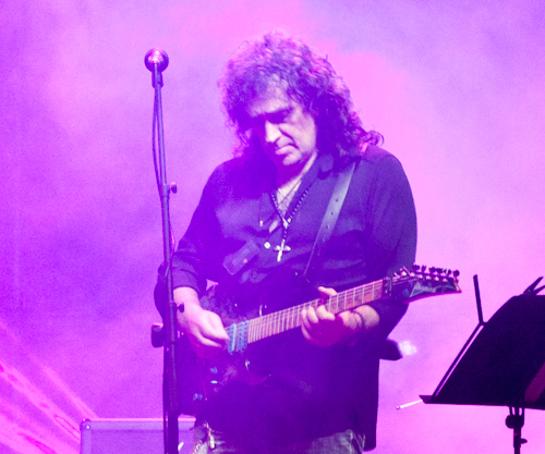 The Bulgarian rock guitarist Nikolo Kotsev performing with his band Kikimora and Doogie White on the town square in Sopot, Bulgaria.